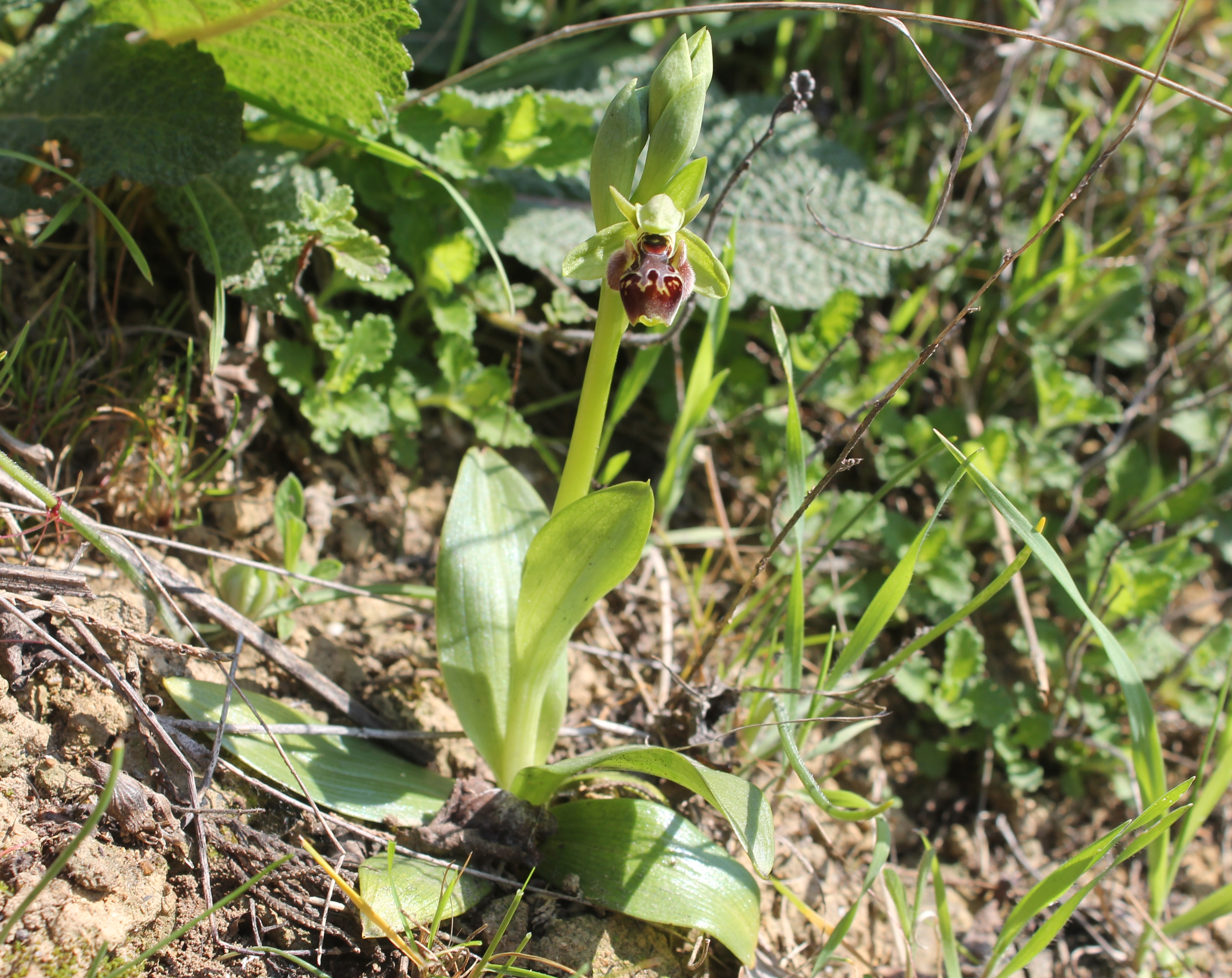 Ophrys umbilicata scape